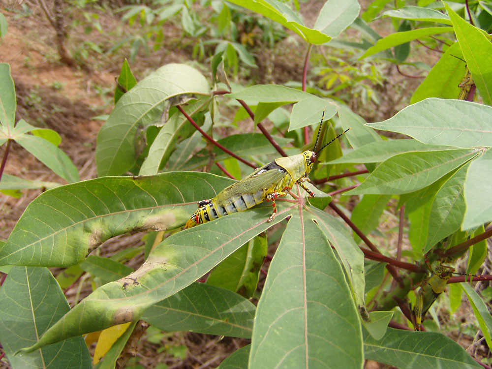 Female of the variegated grasshopper or stink locust (Zonocerus variegatus) photographed on 16/02/05 on a cassava plant at the Biological Control Centre for Africa (International Institute of Tropical Agriculture) in Cotonou, Benin, by Christiaan Kooyman. The females are almost always brachypterous (with short wings). The ovipositor can be clearly seen at the tip of the abdomen.